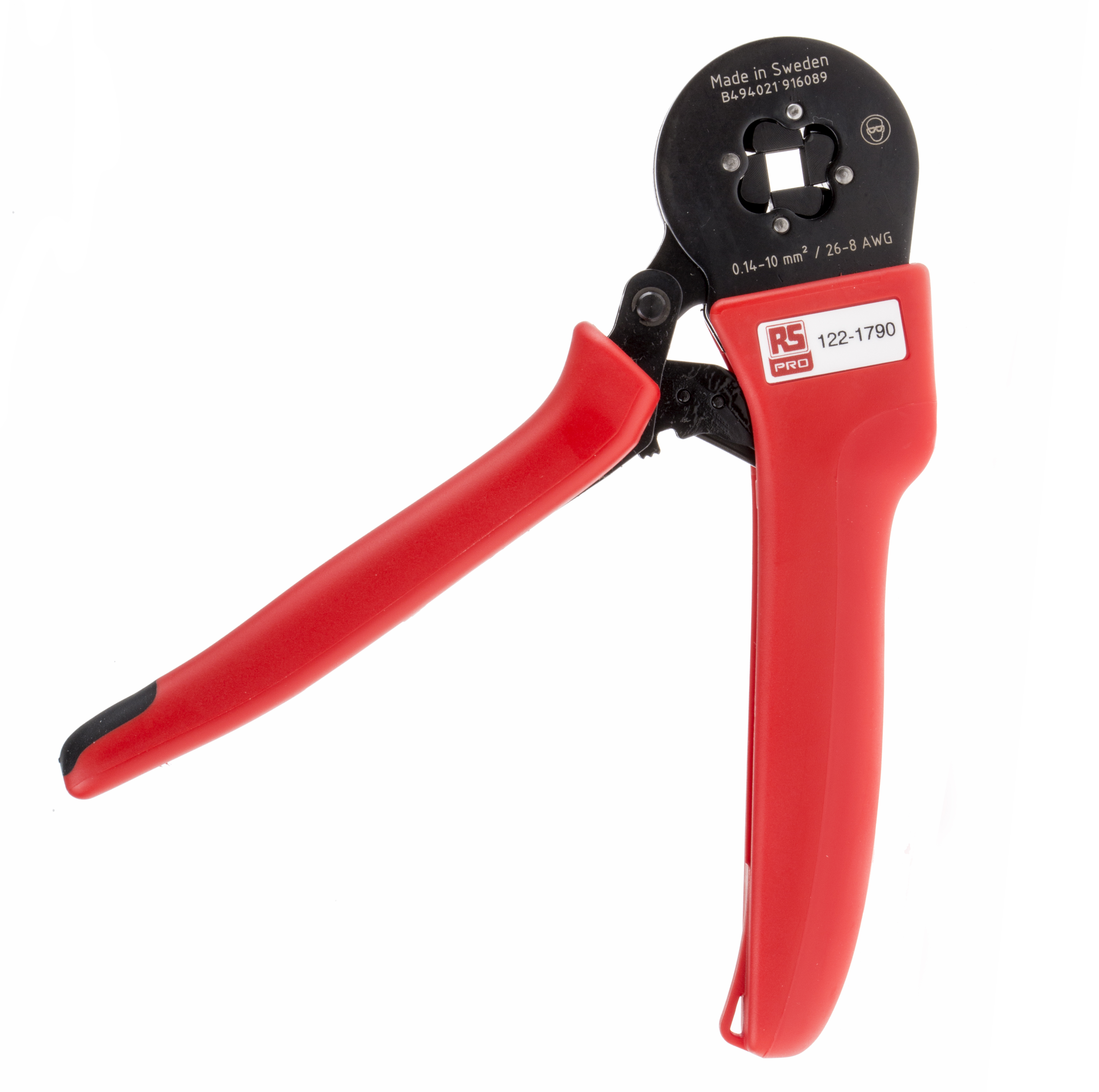 Crimp Tool For 0.14 mm² to 10.00 mm² Insulated and Non-Insulated Ferrules